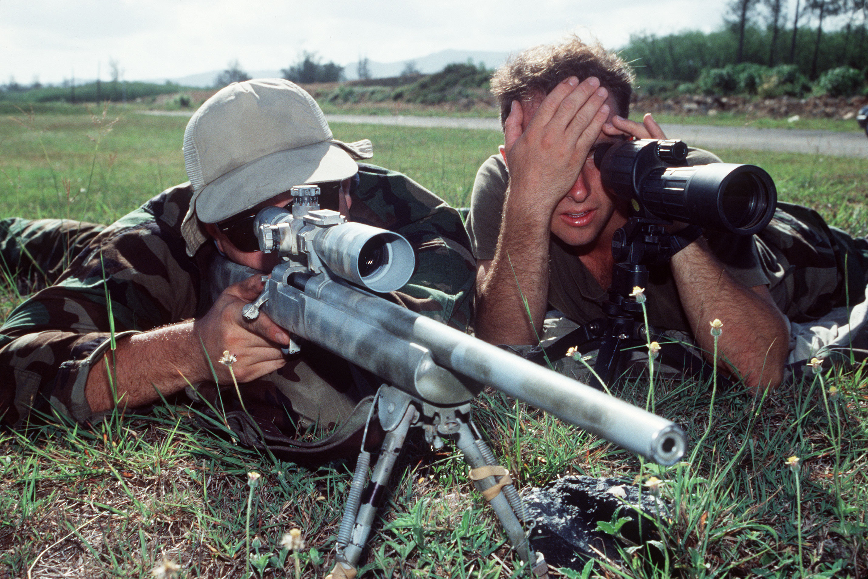 Sniper, Boatswain Mate Third Class (BM3) Todd Hubert is assisted by his spotter, Seaman (SN) Chad Luck who calls wind direction and determines where the rounds impact through the spotting scope. Both men are members of Naval Special Warfare Unit One-SEAL Team Five. The rifle is an M-91 .308 caliber sniper rifle equipped with a 20-X power telescopic sight.